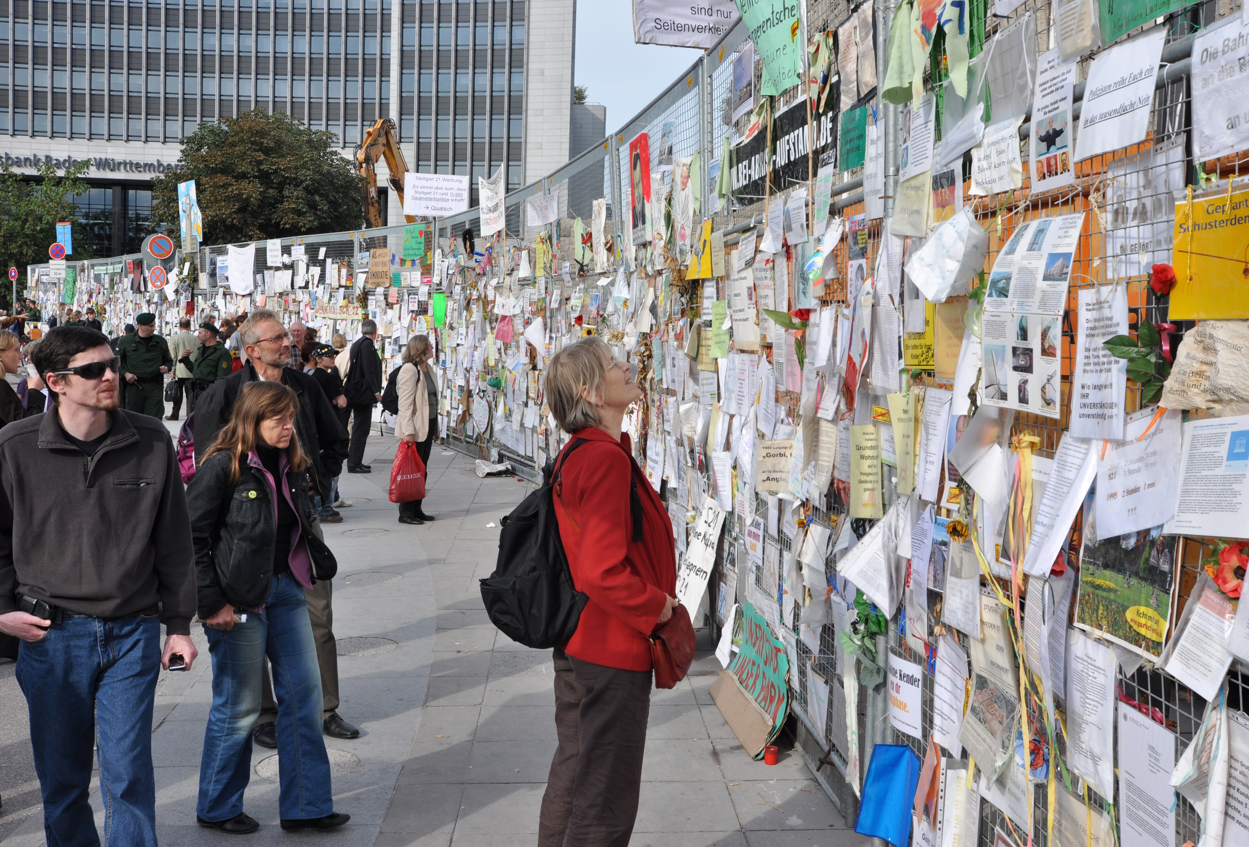 site fence at the north wing of Stuttgart Central Station during demolition works